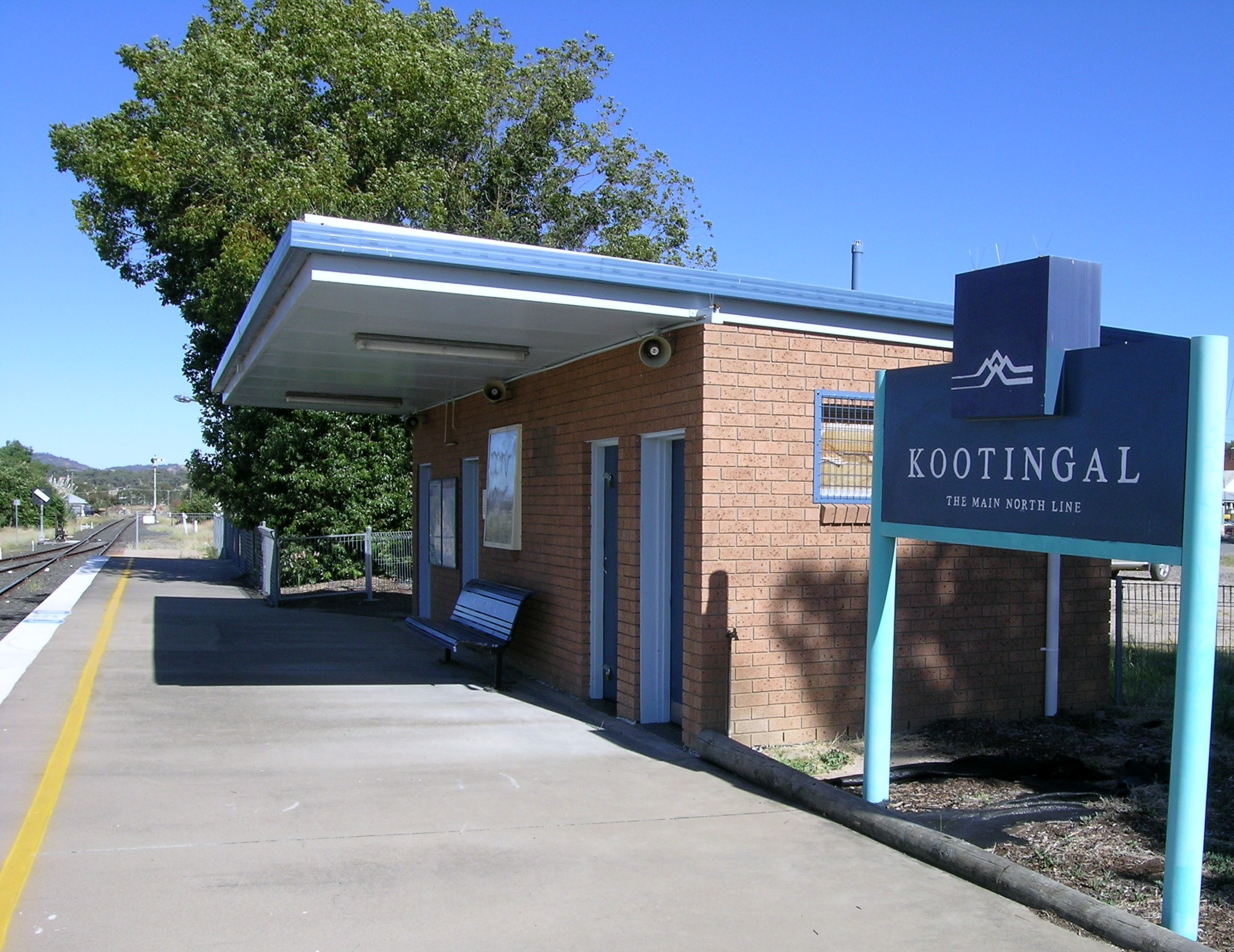 Kootingal railway station